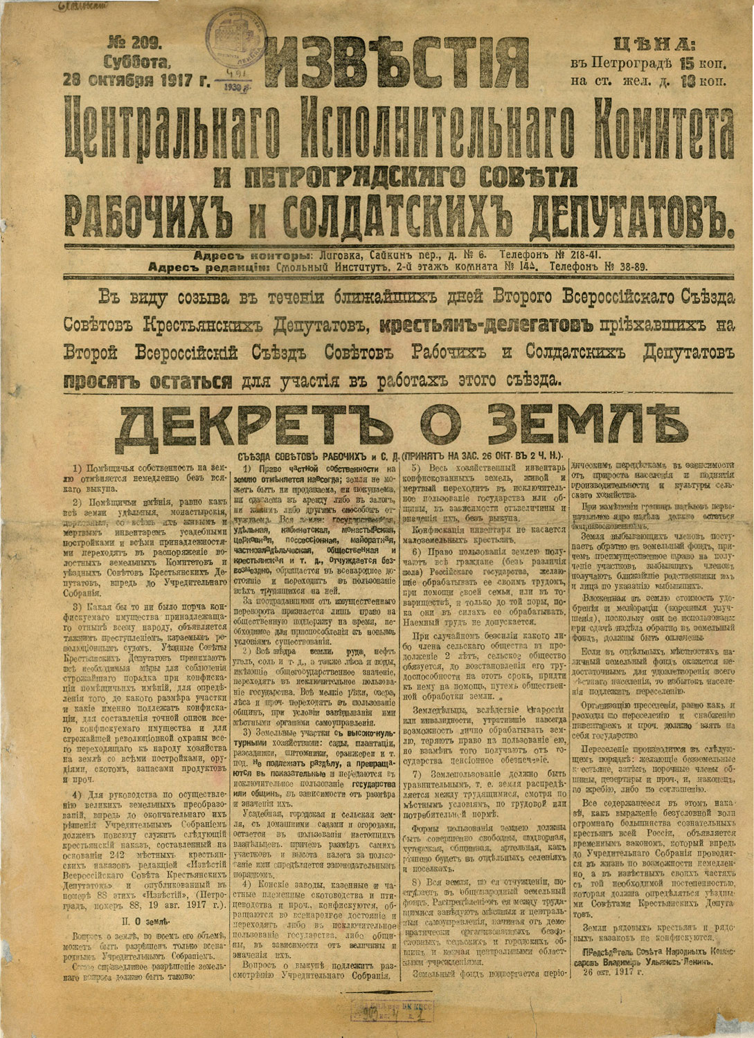 Decree on Land, published in the Izvestia newspaper